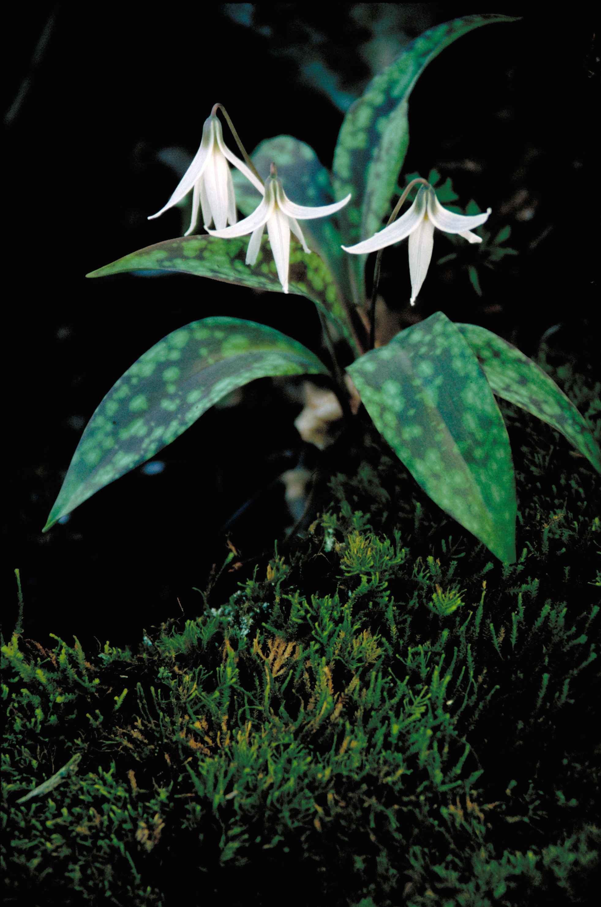 Image title: Three white trout lily flowers blossoms with green leaves erythronium albidum Image from Public domain images website